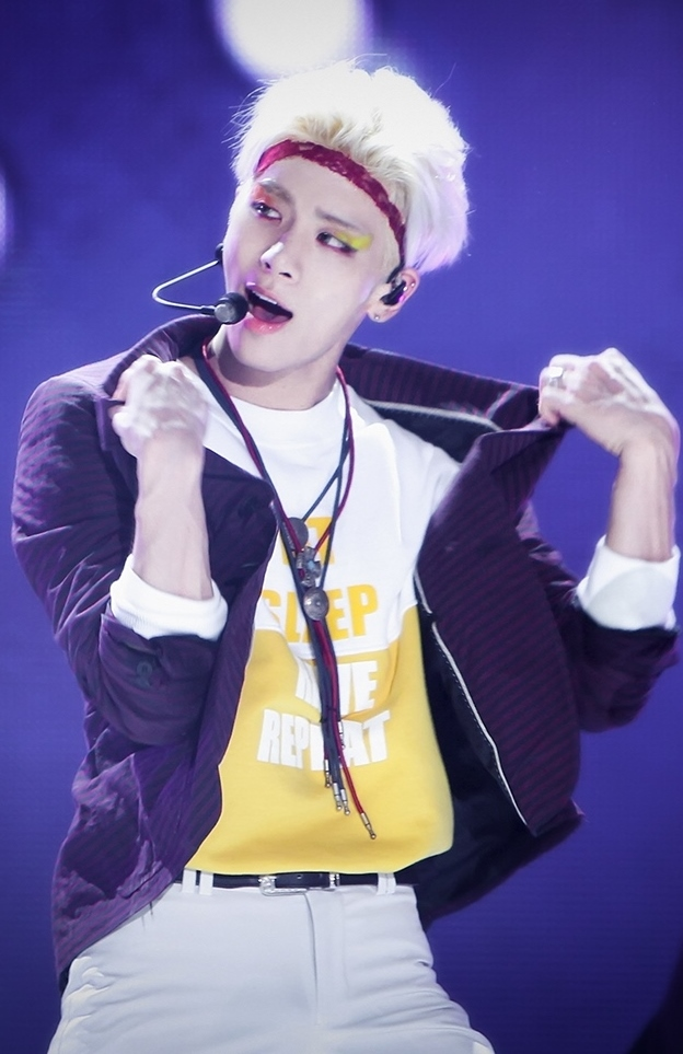 Jonghyun at the SBS Inkigayo 'Korea Music Festival' in Sokcho on August 9, 2015.